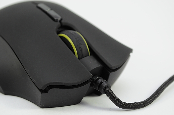 League of Legends version of the Razer Naga Hex